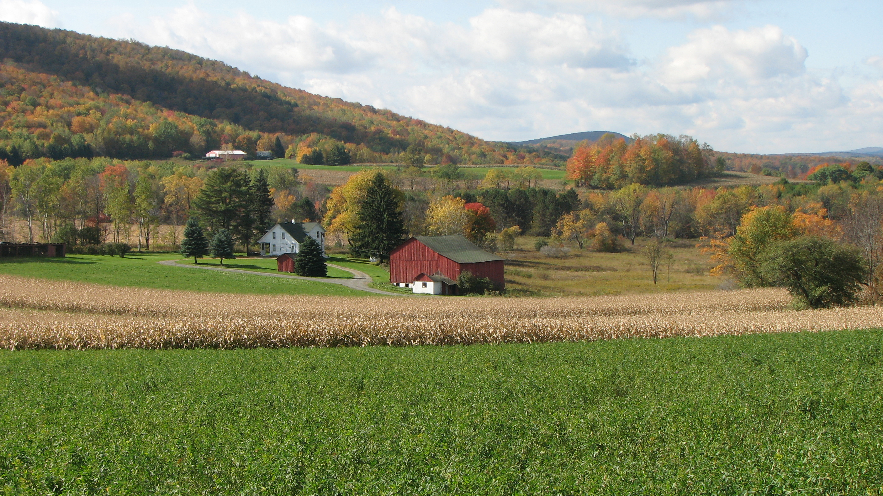 Mid October landscape - Morris Township, Tioga County